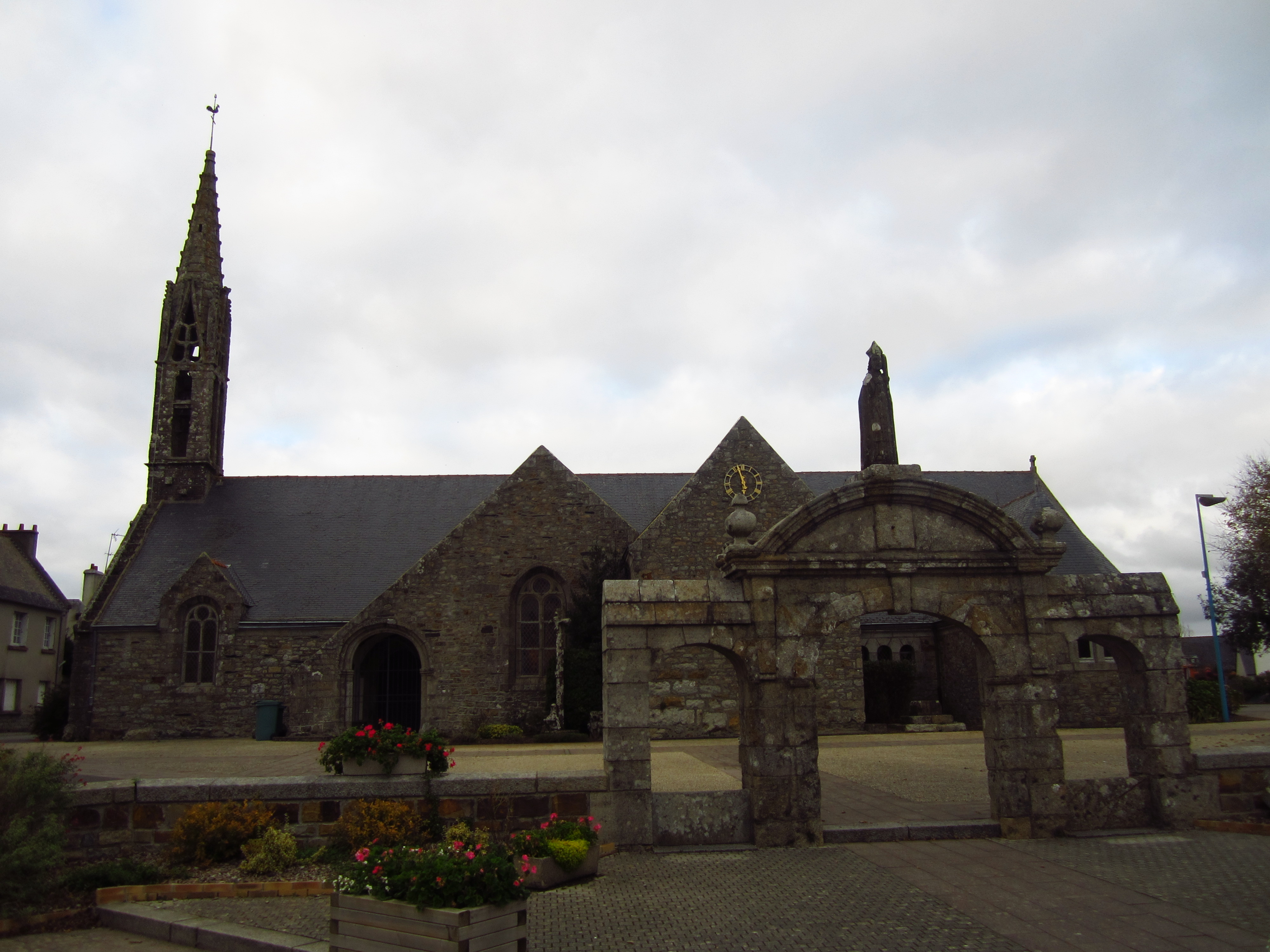 Church of Telgruc-sur-Mer, Finistère